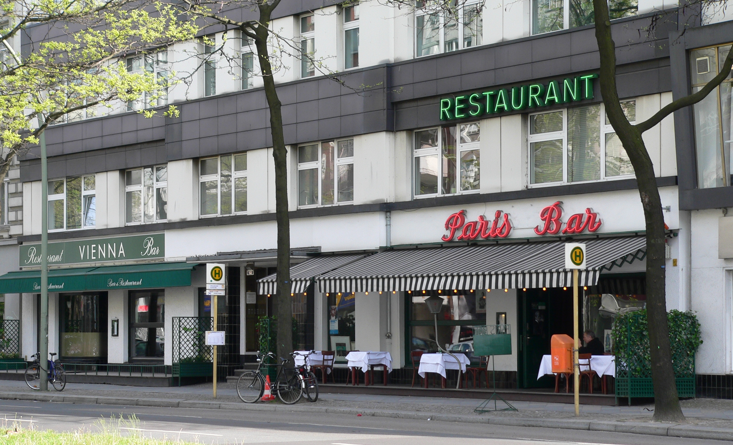 Berlin-Charlottenburg Paris Bar at Kantstraße